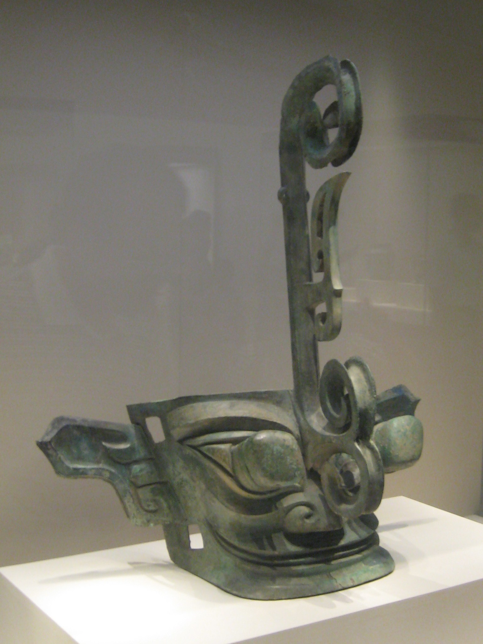 Bronze mask from the Shang Dynasty. Unearthed at Sanxingdui, Guanghan, Sichuan Province, 1986. It is now displaied in the National Museum of China